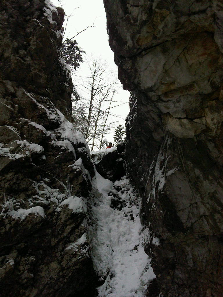 Lipnerova rizňa bottom view